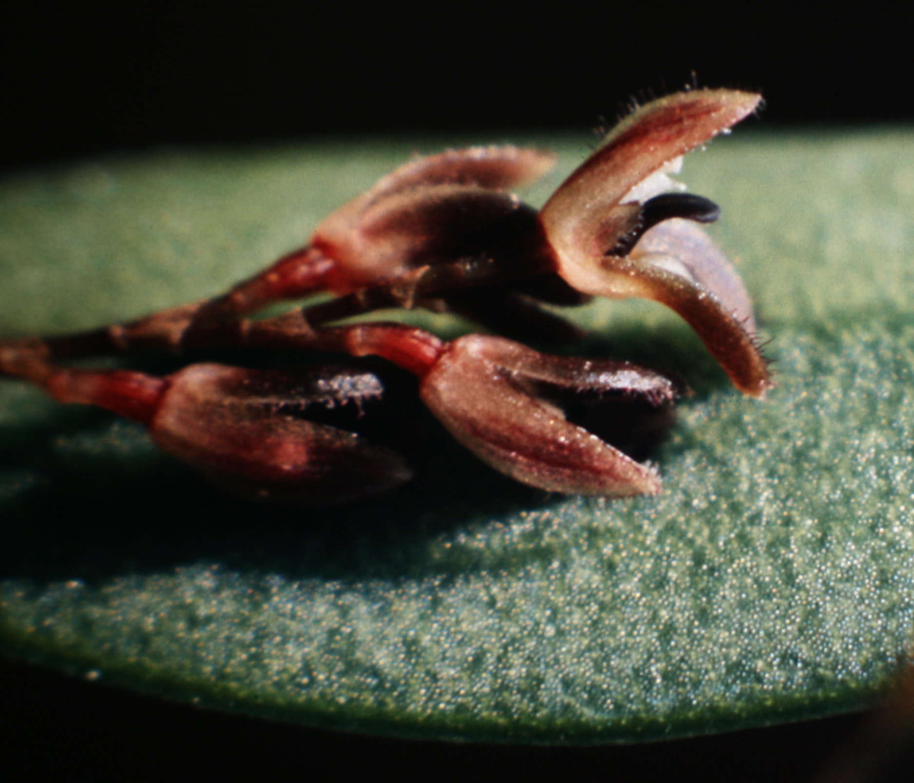 Pleurothallis ciliaris. Suriname.